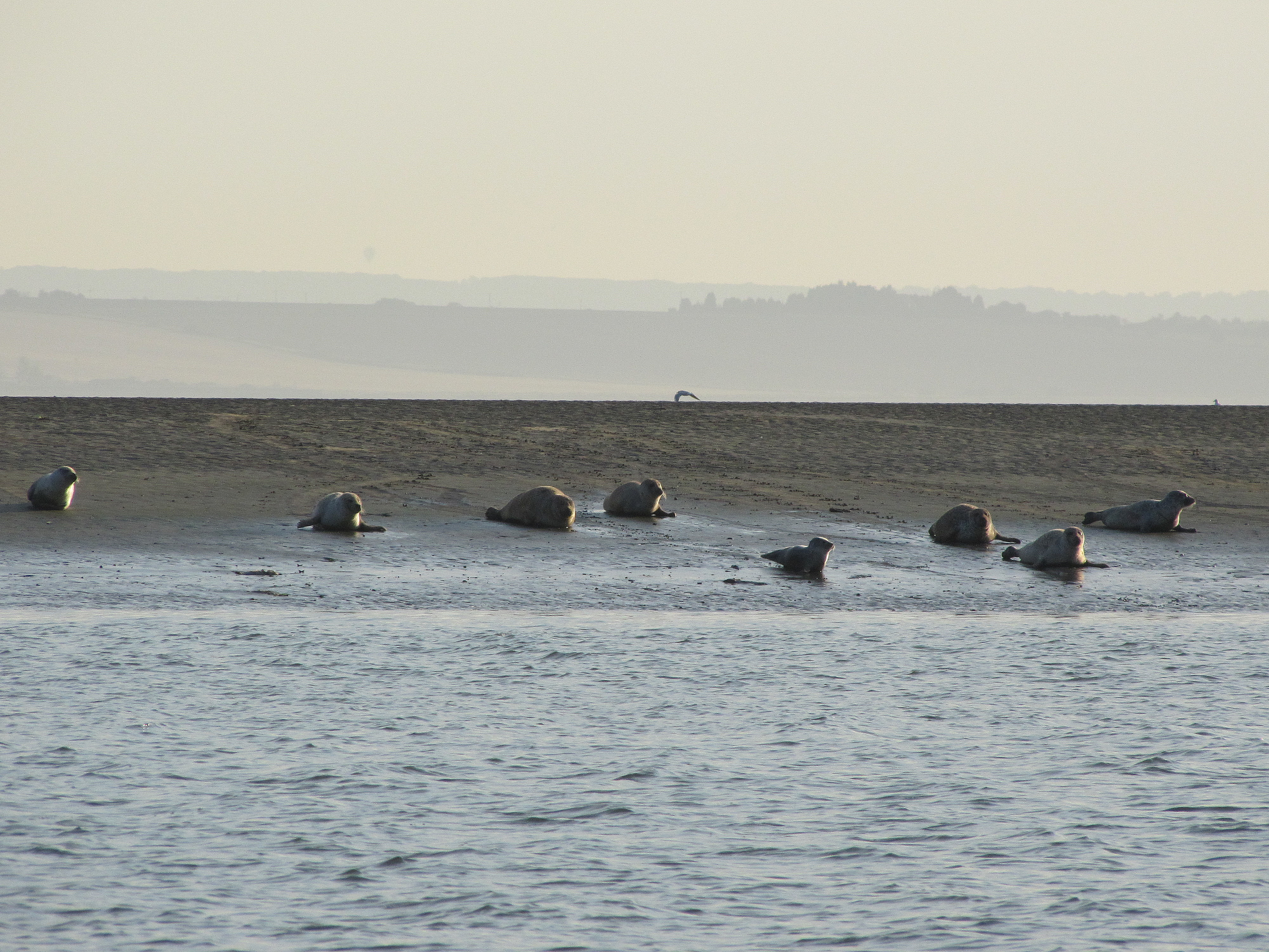 Seals off the coast of Southend-on-Sea, England